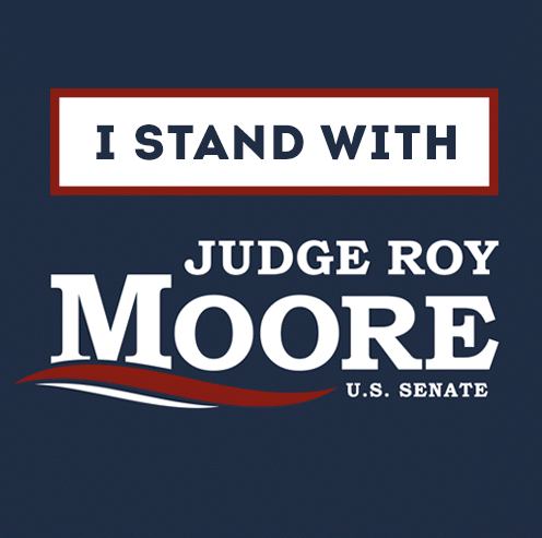 Roy Moore senate campaign, 2017